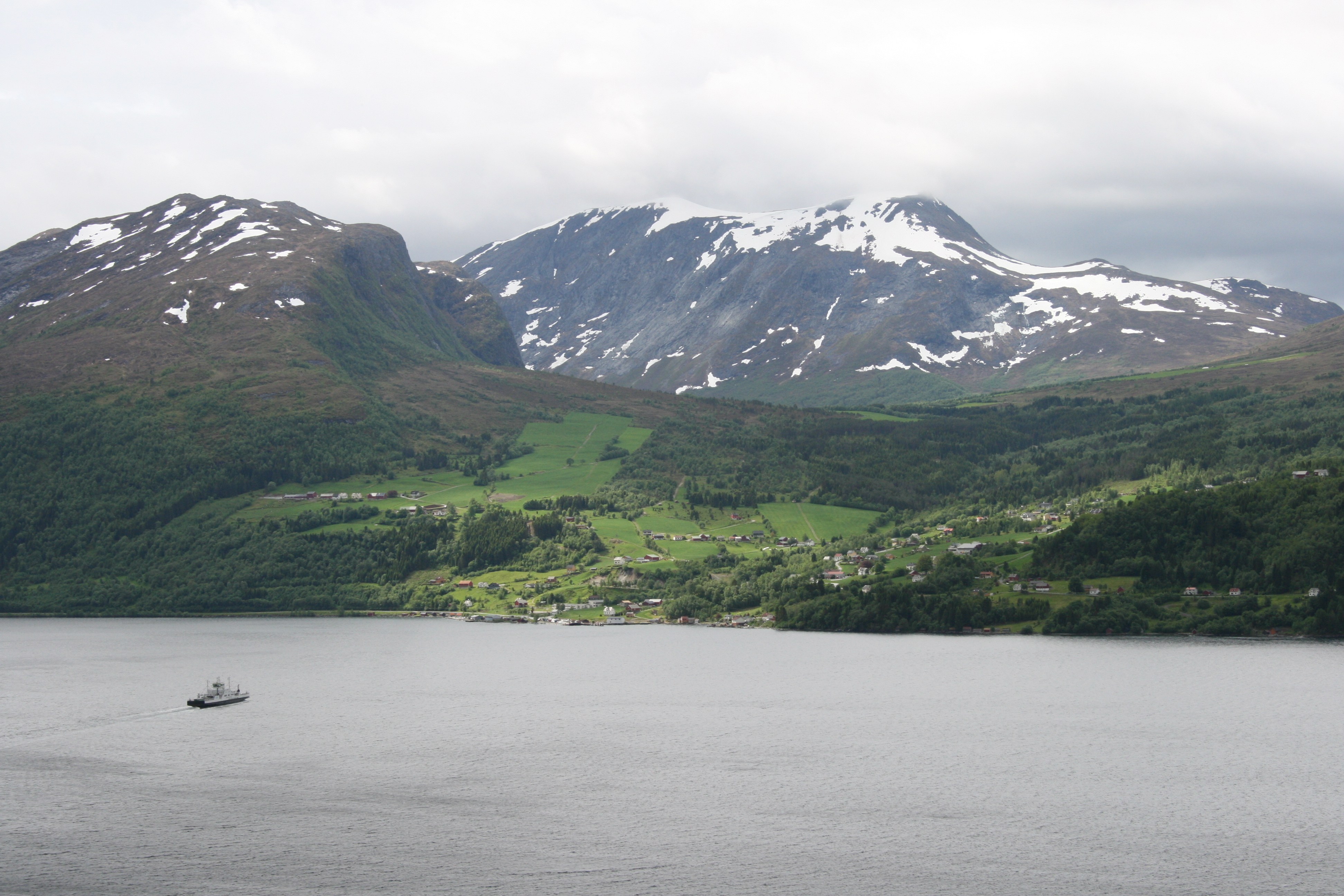 Folkestad, Volda, Norway